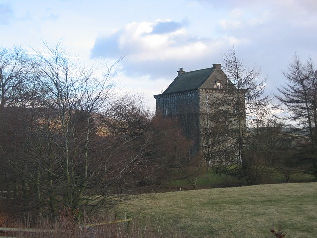 Lochhouse Tower 15th Century tower house handily placed in the midst of a reivers artery, Annandale.